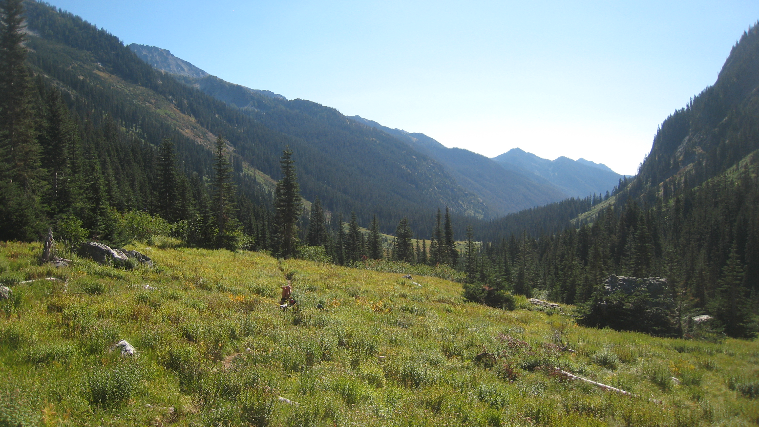 Spider Meadow, Entiat Mountains, Washington, United States, as seen from its north side. Mount Maude is in upper-left.